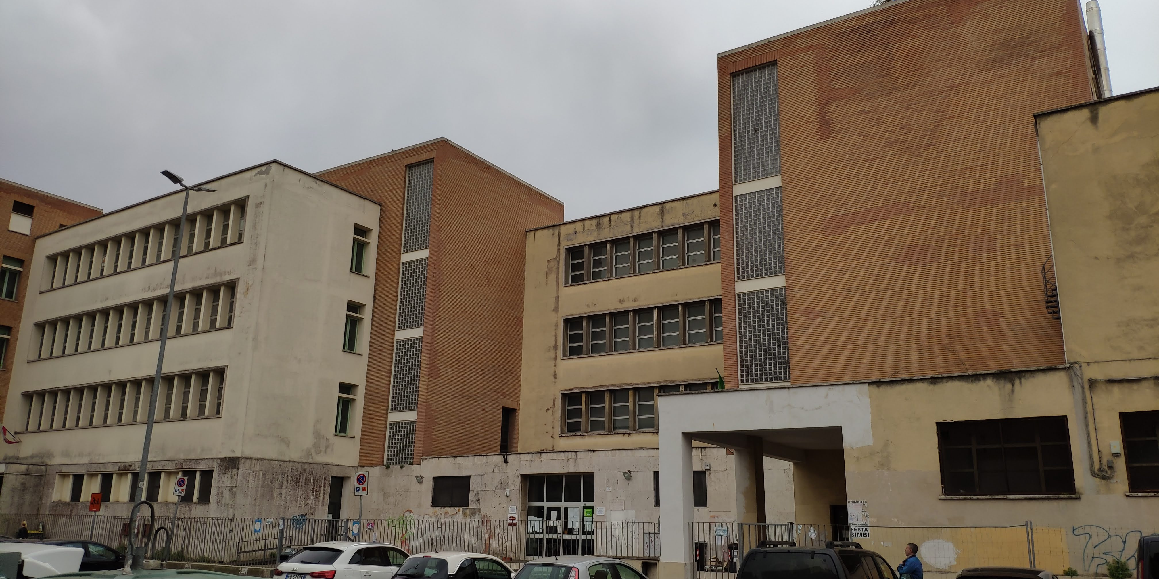 The school named after Eugenio and Giuseppe Garrone on Corso Duca di Genova in Ostia, Rome.